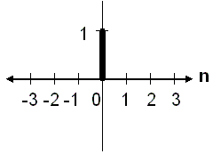 author: msa11usec